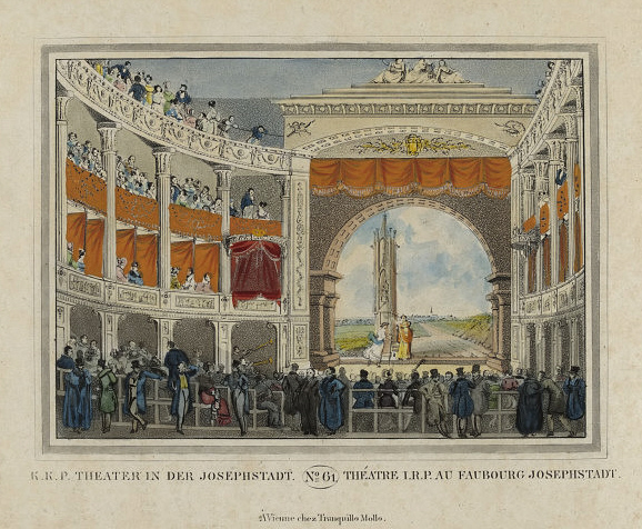 Interior of the Theater in der Josefstadt, Vienna, aquatint, published by Tranquillo Mollo & Co., Vienna. Victoria and Albert Museum, London, Museum number: S.3936-2009